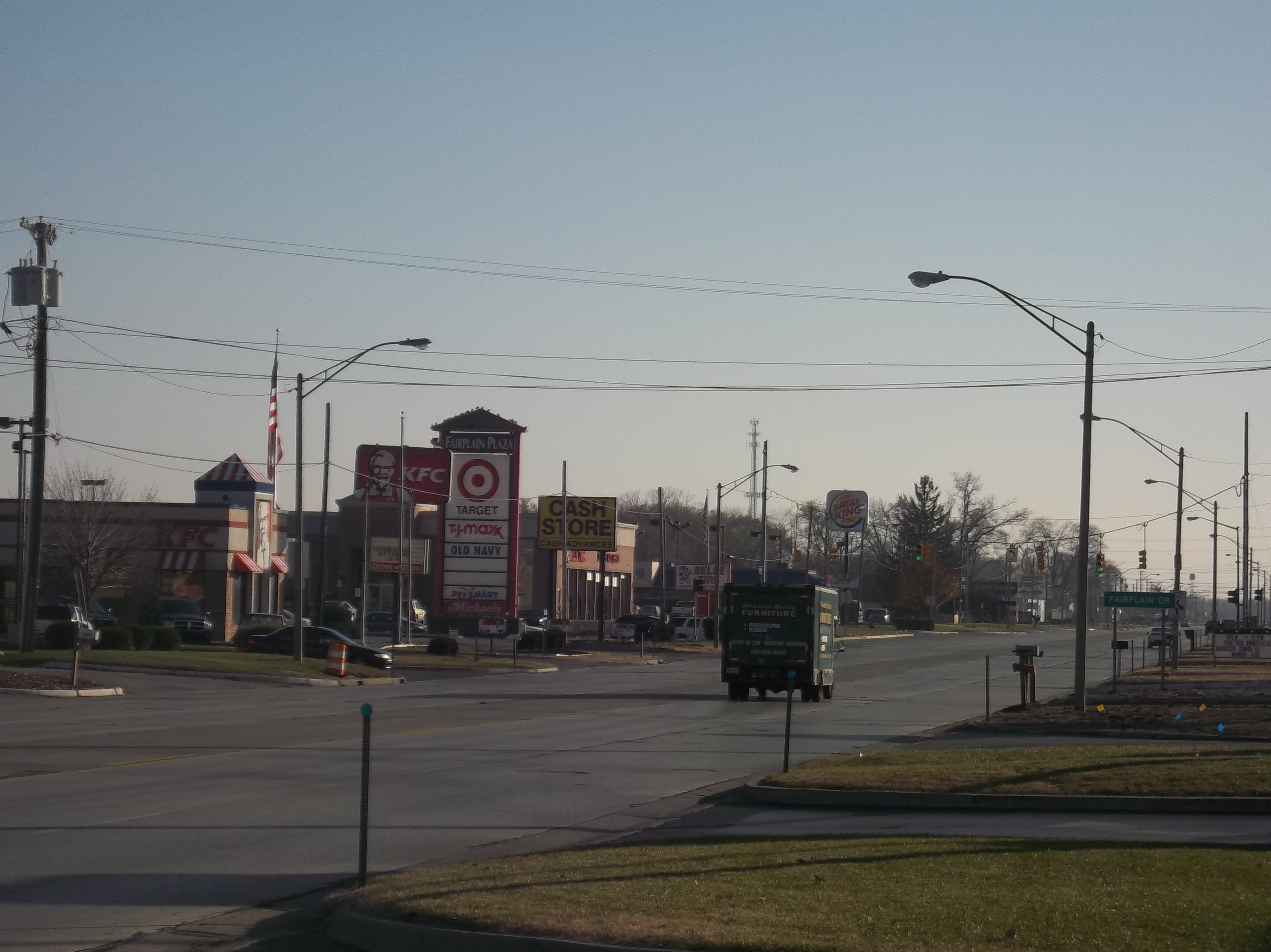 M-139 near Benton Harbor, Michigan